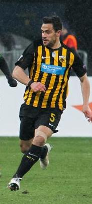 André Luís Gomes Simões, Vassilis Lambropoulos